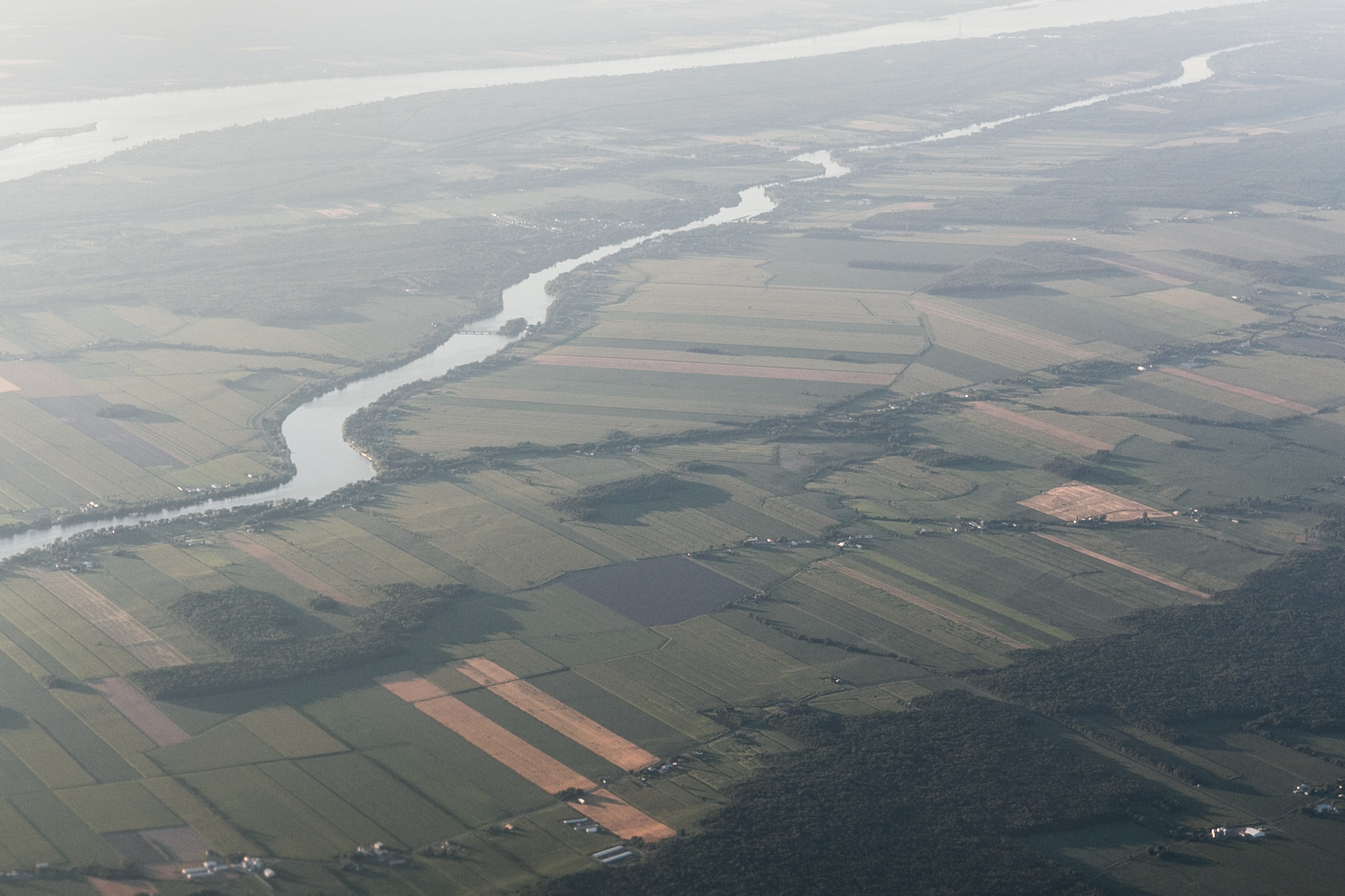 Aerial view of Richelieu River during a flight between CDG and YUL.